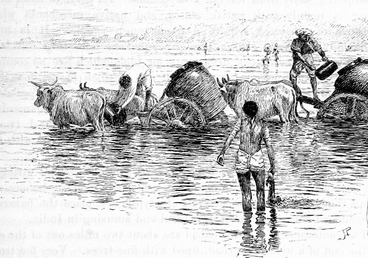 Image taken from: Title: "Picturesque India. A handbook for European travellers, etc. [With maps.]" Author: CAINE, William Sproston. Shelfmark: "British Library HMNTS 010057.ee.7.", "British Library OC ORW.1986.a.2996" Page: 115 Place of Publishing: London Date of Publishing: 1890 Publisher: G. Routledge & Sons Issuance: monographic Identifier: 000567709 Note: The colours, contrast and appearance of these illustrations are unlikely to be true to life. They are derived from scanned images that have been enhanced for machine interpretation and have been altered from their originals. If you wish to purchase a high quality copy of the page that this image is drawn from, please order it here. Please note that you will need to enter details from the above list - such as the shelfmark, the page, the book's volume and so on - when filling out your order. Explore: Find this item in the British Library catalogue, 'Explore'. Open the page in the British Library's itemViewer (page: 115) Download the PDF for this book Click here to see all the illustrations in this book and click here to browse other illustrations published in books in the same year. Please click on the tags shown on the right-hand side for other ways to browse the illustrations.